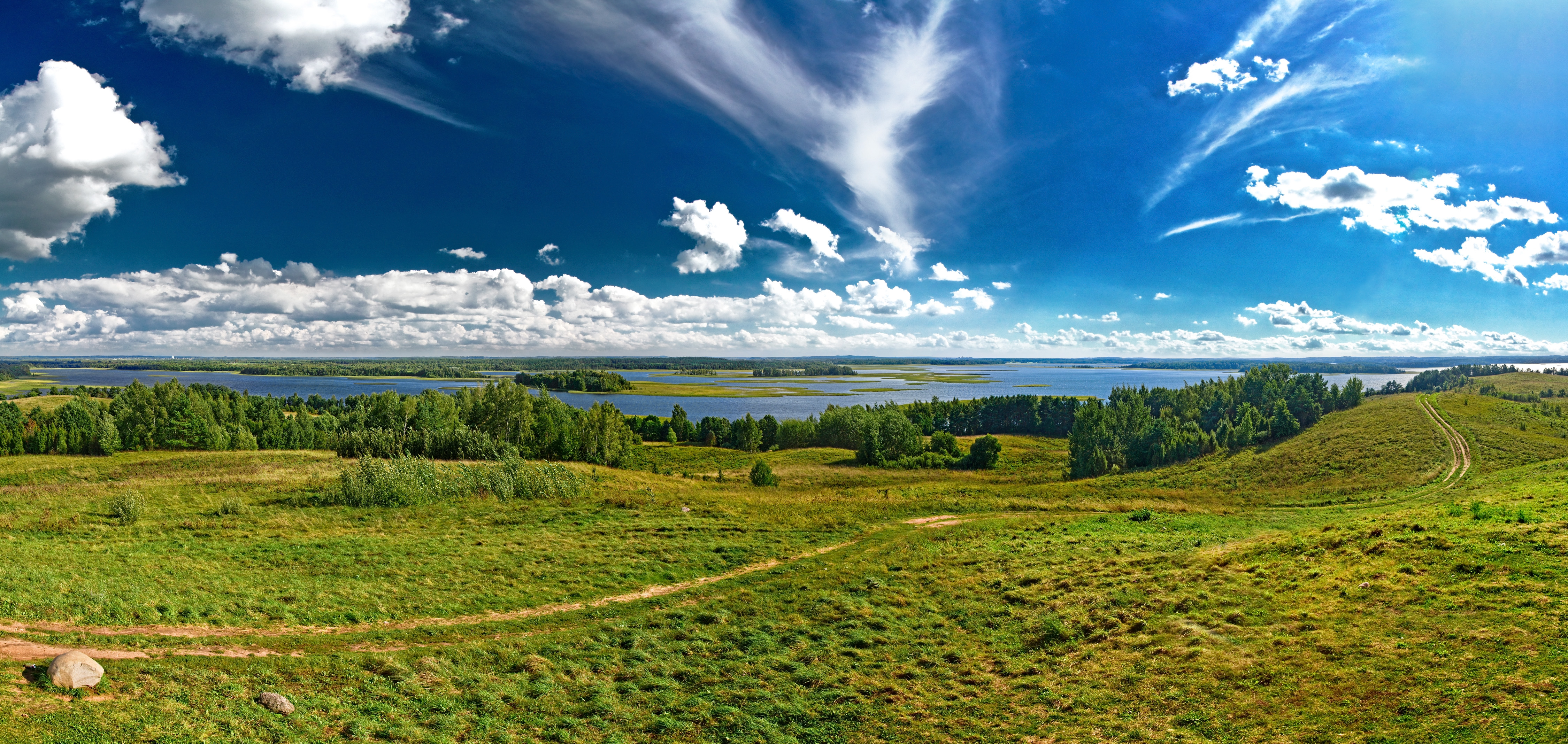 Panoramic view of Strusta Lake, Braslau Lakes, Belarus (2010)